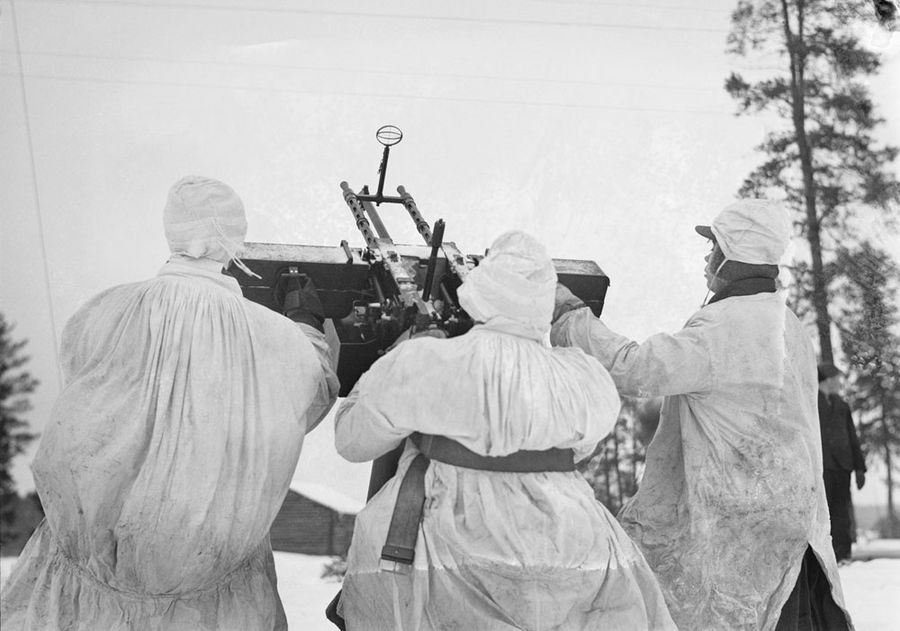 Anti-aircraft machine gun in the winter warfare exercise in Karelia in March 1937.